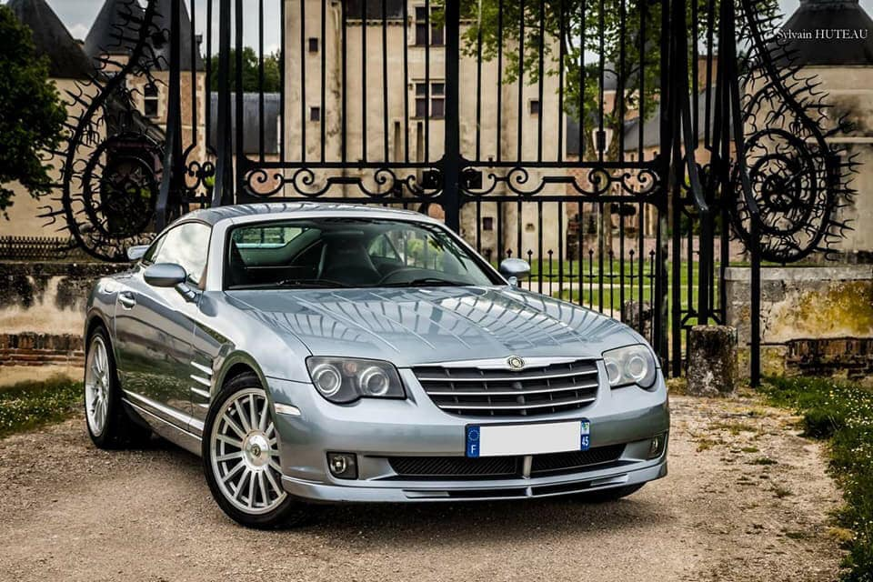 This is a Chrysler Crossfire SRT-6 Coupe in Sapphire Silver Blue